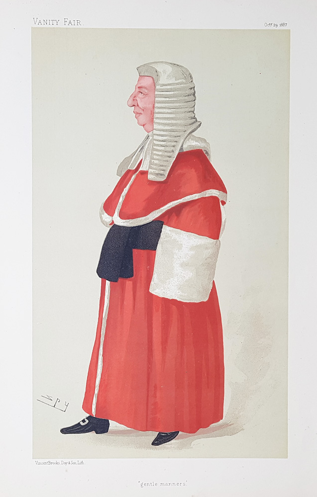 Caricature of The Hon Sir Ford North (1830-1913). Caption read "gentle manners".